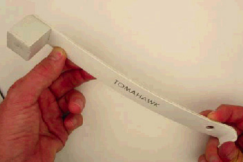 tool for bumping photo. 画像は、 から転載